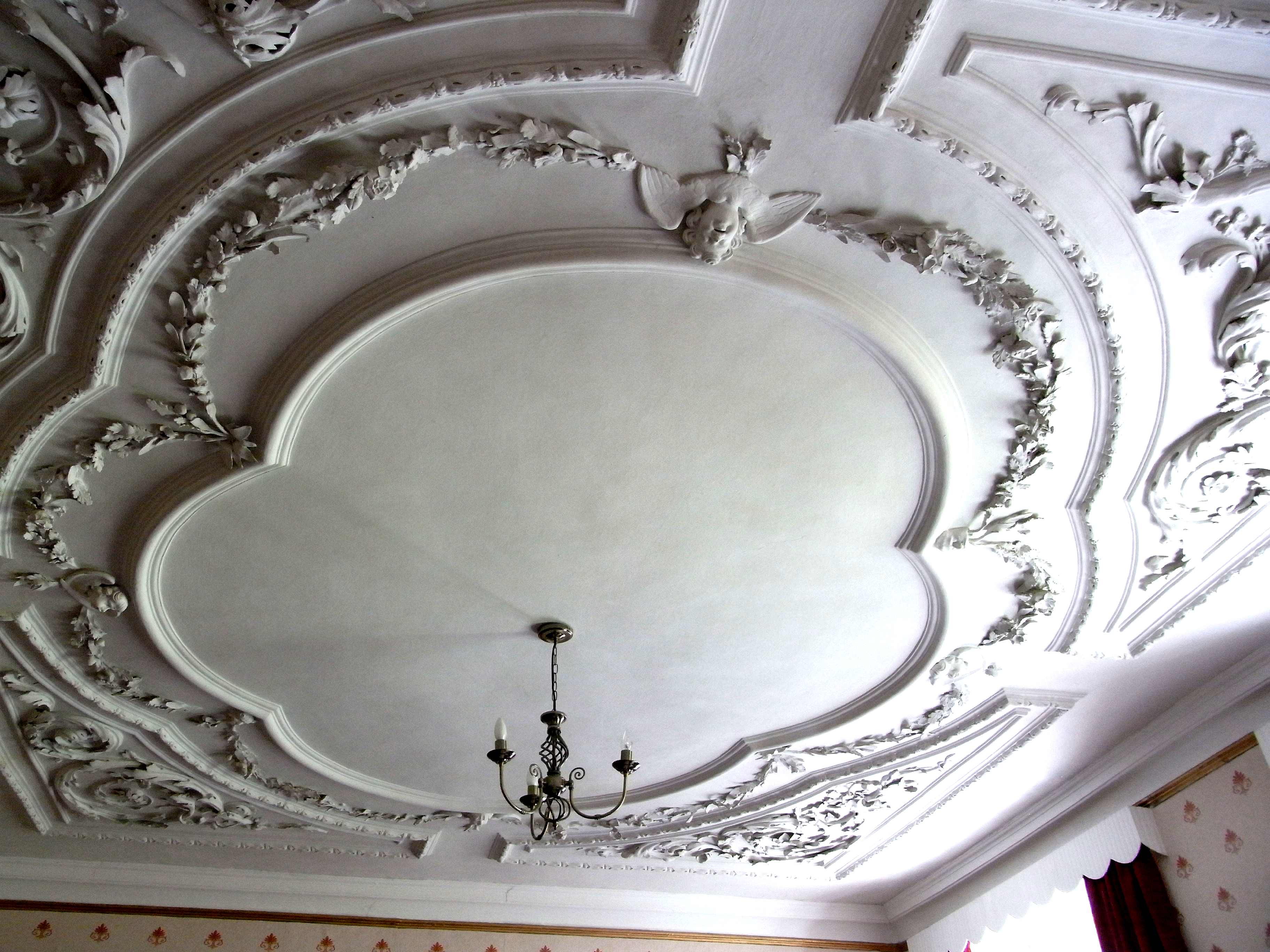 Fine 17th century decorative plaster ceiling in Townhouse Barton, South Molton, Devon, birthplace of Hugh Squier (1625-1710), benefactor of South Molton. Situated about 1 3/4 miles west of the centre of the town of South Molton, on the road to Chittlehampton. In 2015 the property of the Countess of Arran's Castle Hill estate, Filleigh